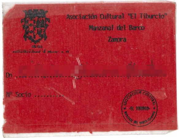 "El Tiburcio" assocoation ID